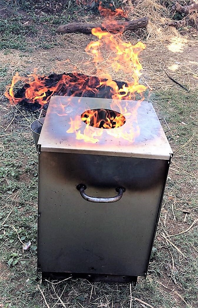 This is a kiln that can convert agri, forestry, garden waste into char. The 'renewable char' output from the kiln can be used for a variety of applications. The kiln is portable, and easy to operate. This is an invention of Samuchit Enviro Tech (